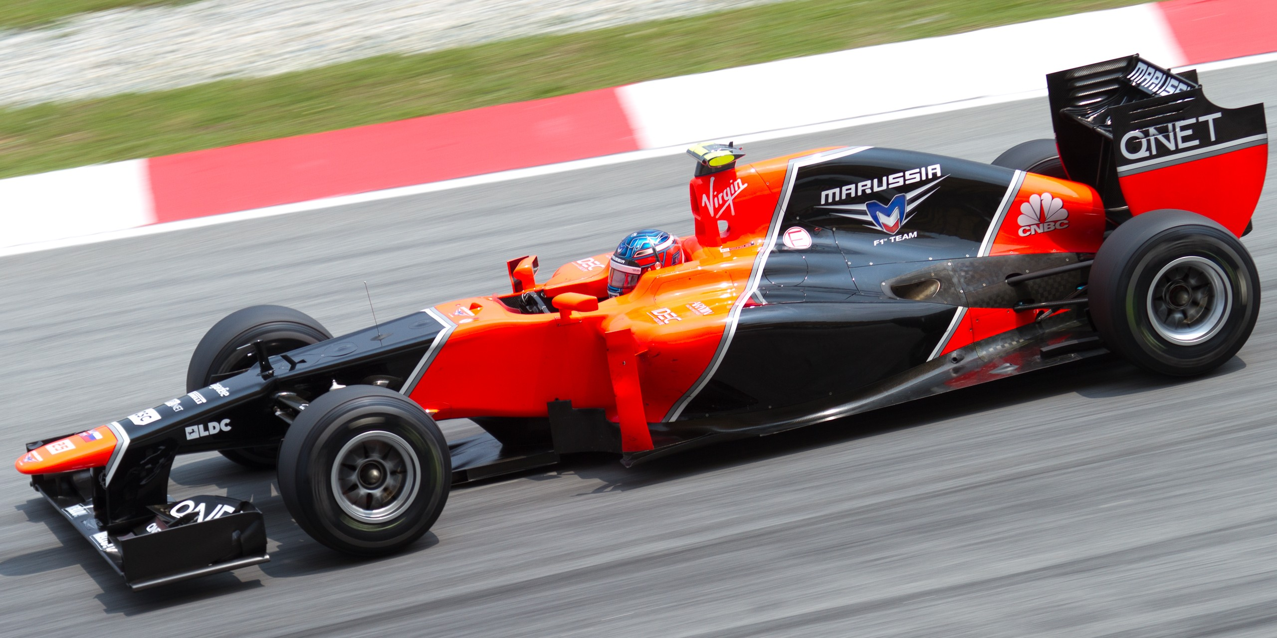 Formula One 2012 Rd.2 Malaysian GP: Charles Pic (Marussia) during the second practice session on Friday.